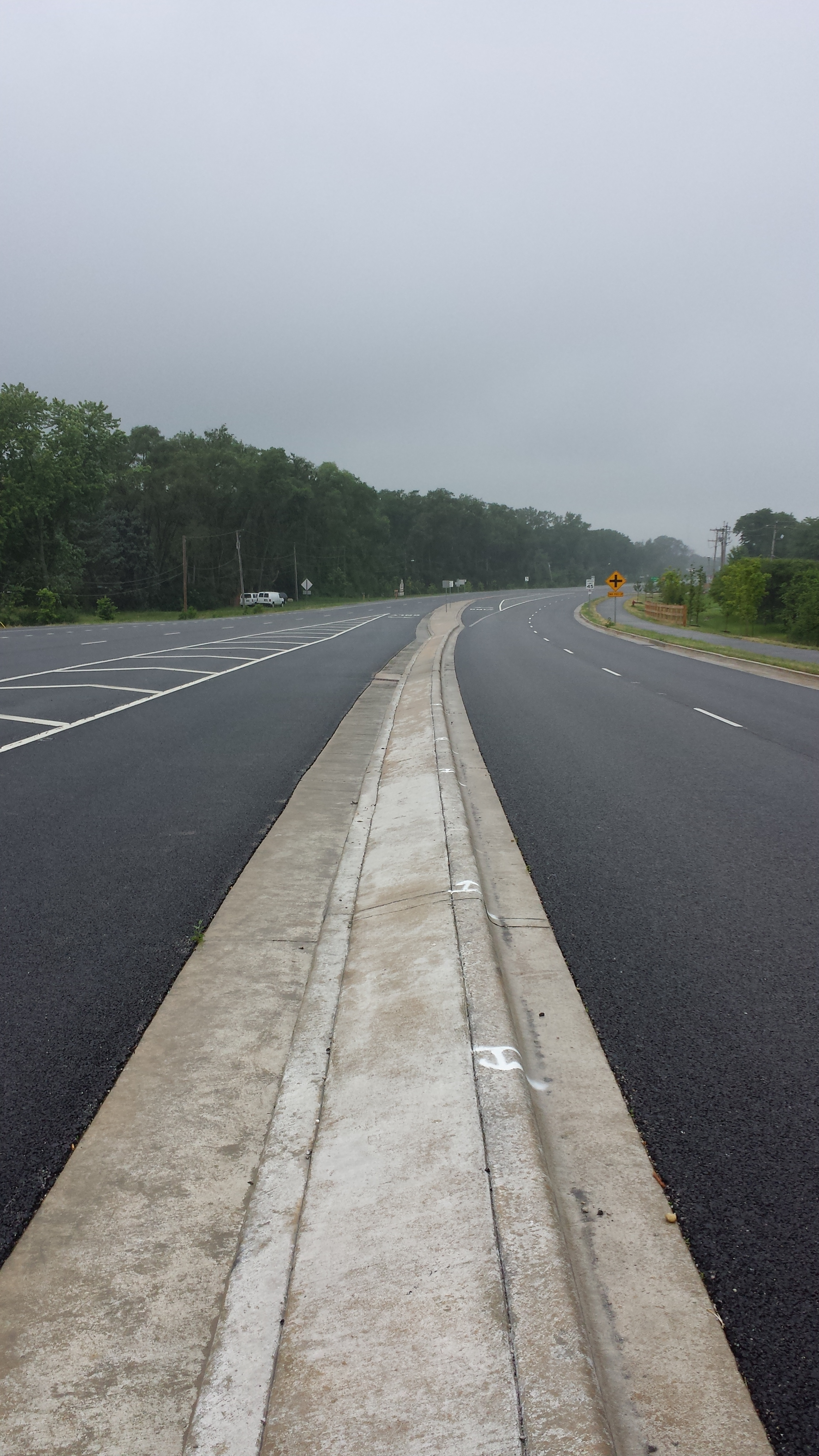 Butterfield Road (IL-56) near its intersection with IL-59.